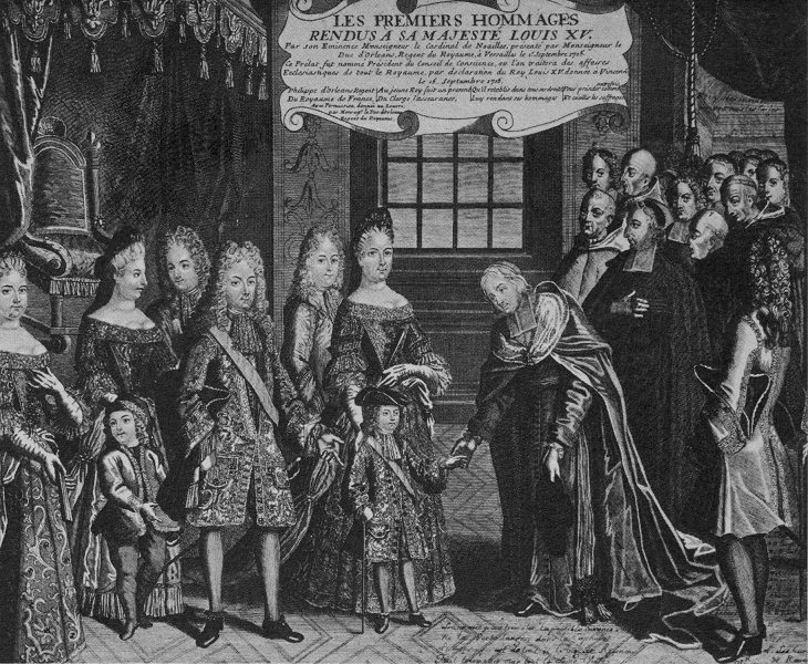 "The King is dead, long live the King", 1st September 1715. On the day of Louis XIV death. the five-year-old Louis XV., attended by the Regent, the Duke of Orléans (Nephew of Louis XIV) receives the homage of the Cardinal de Noailles. Note the patterns and the textures of the fabrics, rich brocades. French